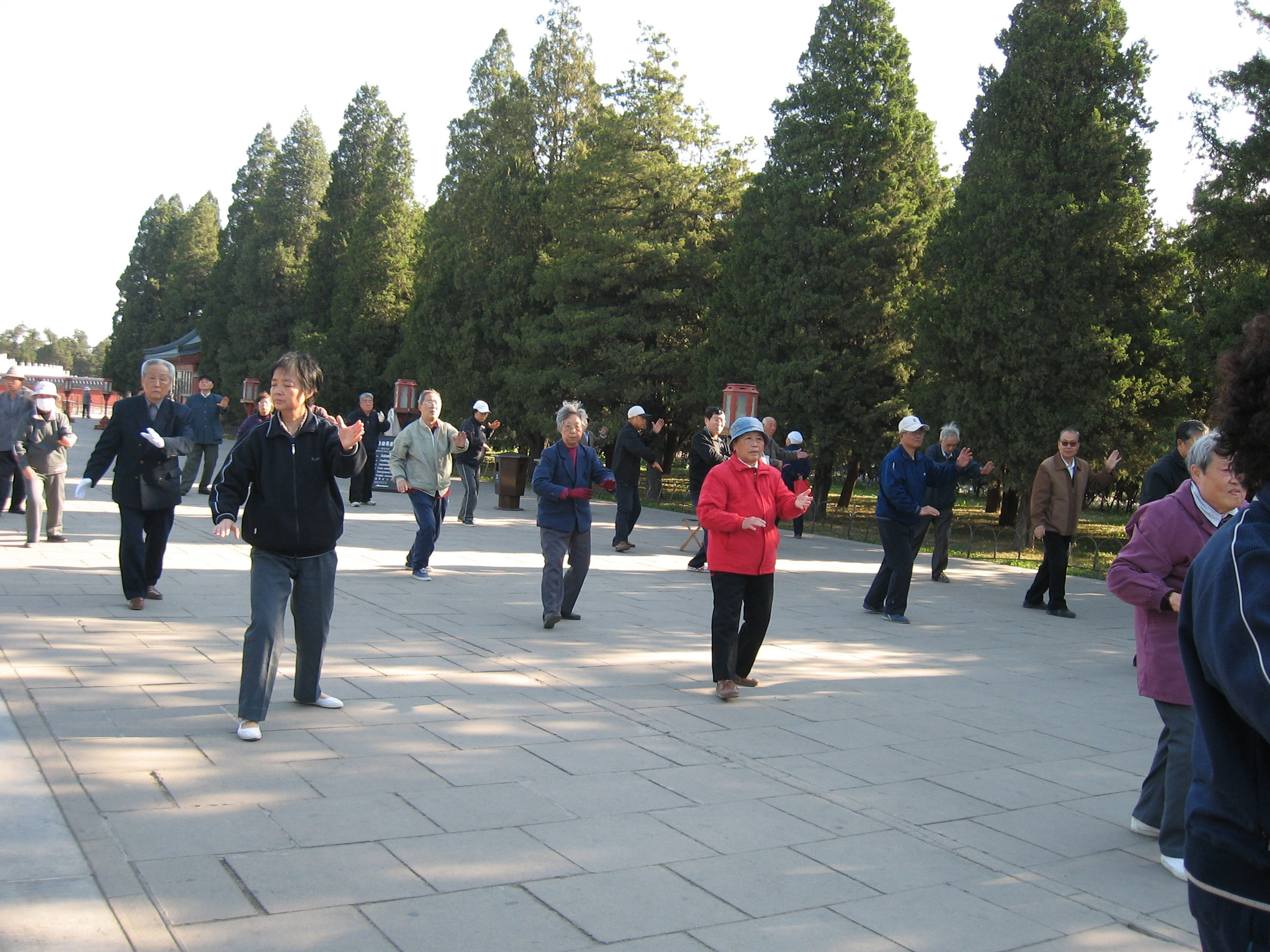 Tai Chi in the street, China, May 2007